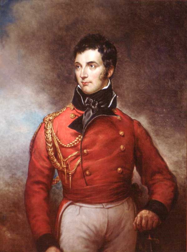 Lieutenant-General Sir George Murray, GCB [Provisional Lieutenant Governor of Upper Canada, 1815]